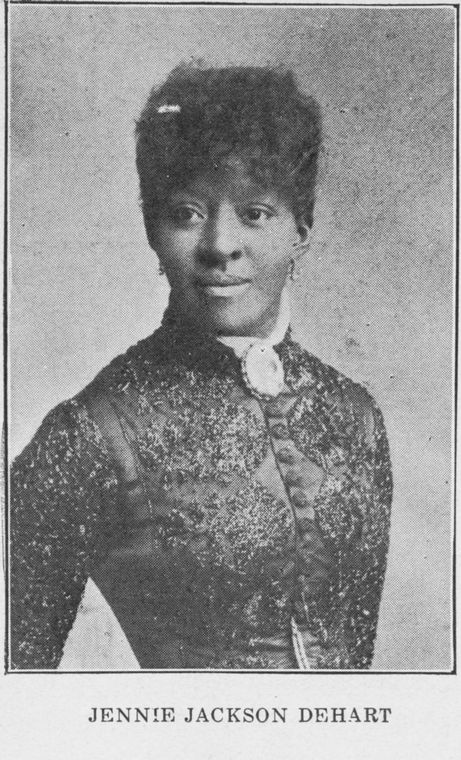 Jennie Jackson DeHart, an African-American singer, wearing a dark, textured, high-neck bodice with a cameo pin at the throat, from a 1911 publication.